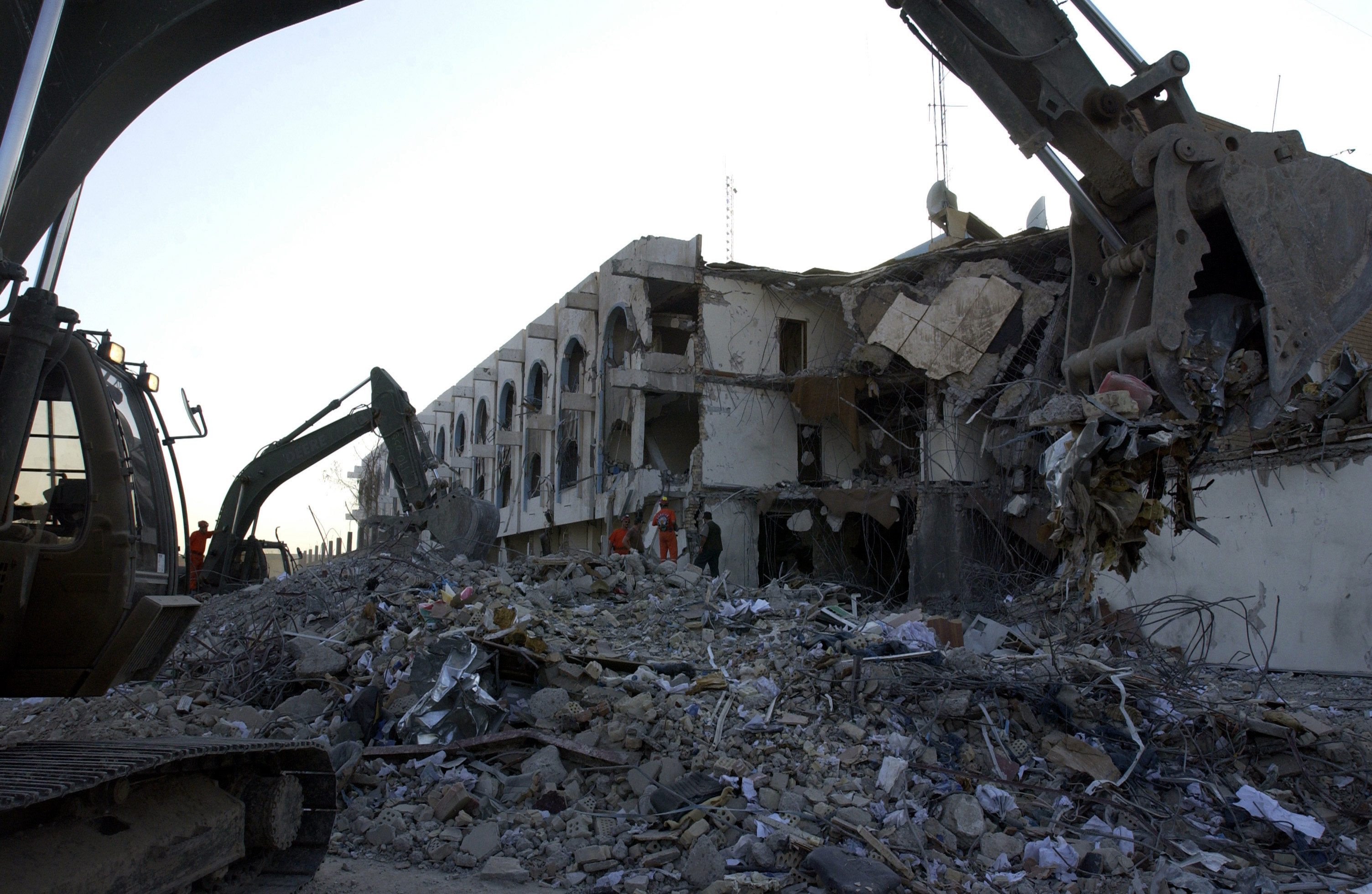 US Army (USA) Soldiers assigned to the 203rd Combat Engineer Battalion, Missouri Army National Guard (ANG) use a tracked excavator to remove tons of rubble and debris as rescue workers search for victims at the United Nations (UN) Office of Humanitarian Coordinator Building in Baghdad, Iraq, after a truck bombing destroyed much of the building.